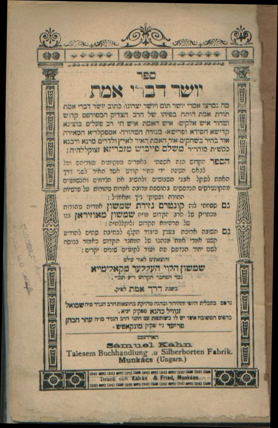 Book Yosher Divrei Emet - Chassidic Book, Munkacs 1905